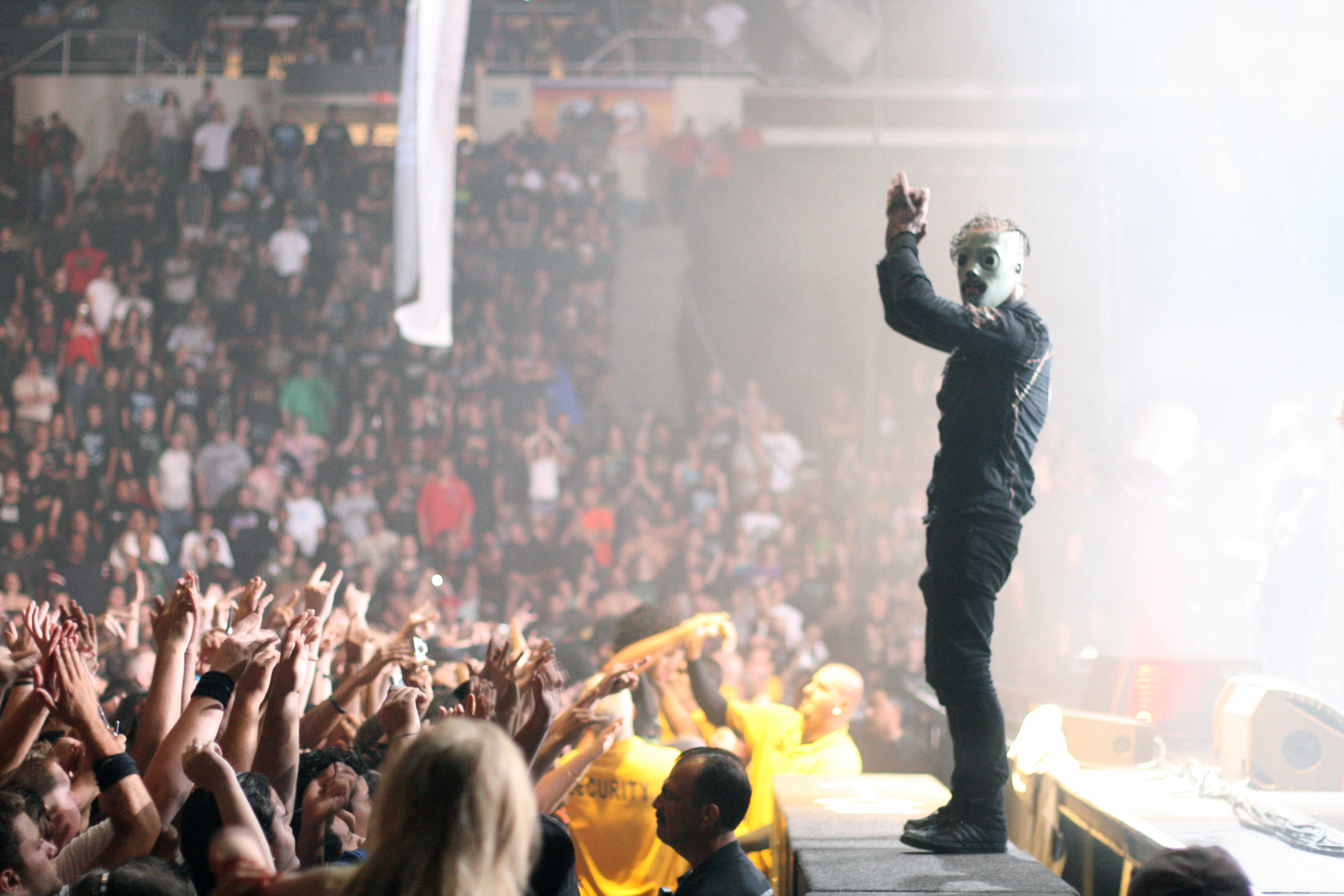 Slipknot Concert - Uniondale - RockStar Tour 2008